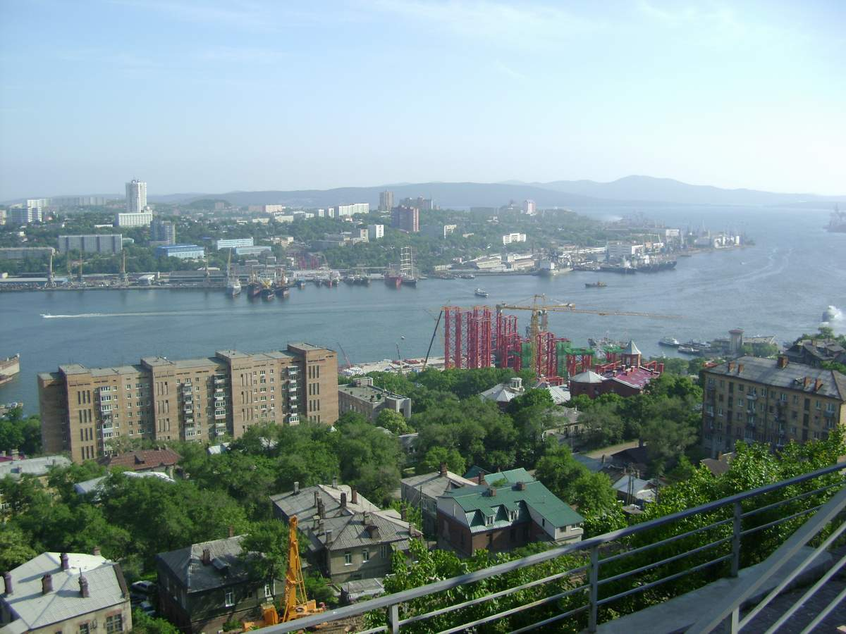 Bridge through Golden Horn Bay, under Construction in Vladivostok, Russia, 26.06.2009